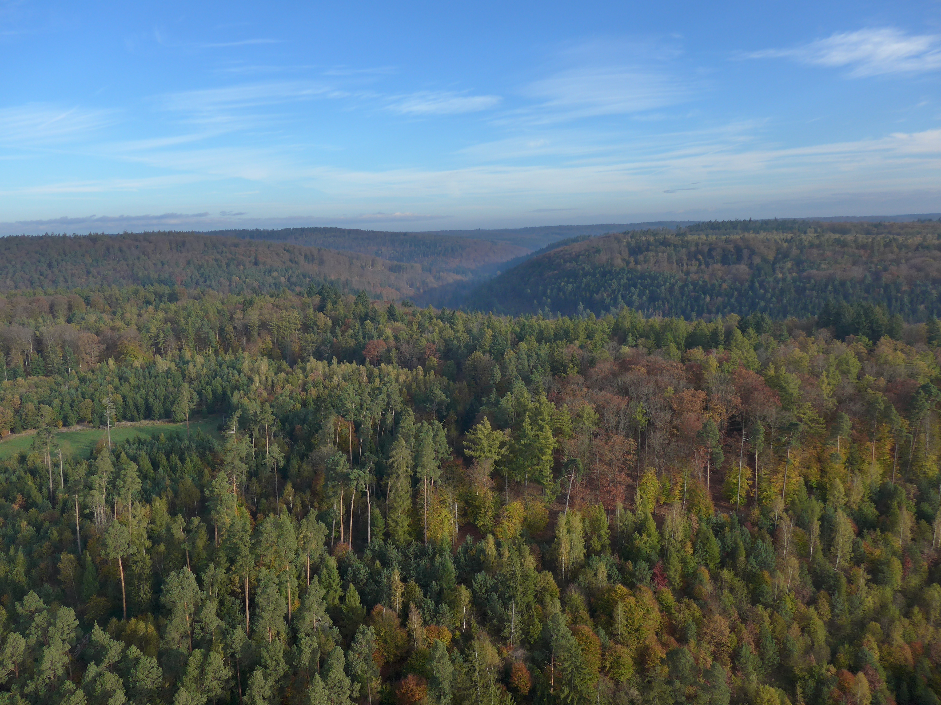 Dickenberg (foreground) and Goldersbachtal, seen from hot air ballon